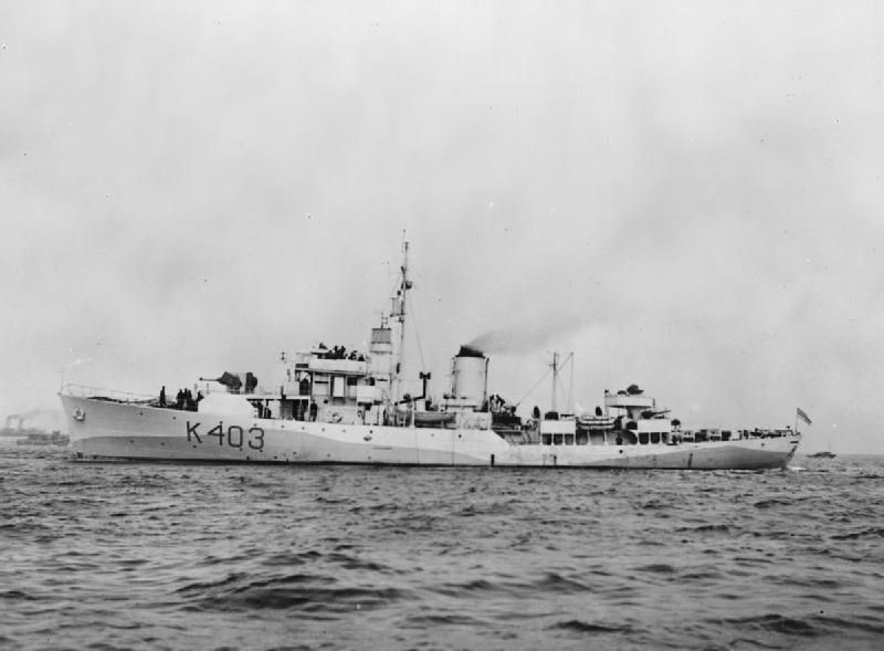 Photograph of modified Flower class corvette HMNZS Arbutus (K403).